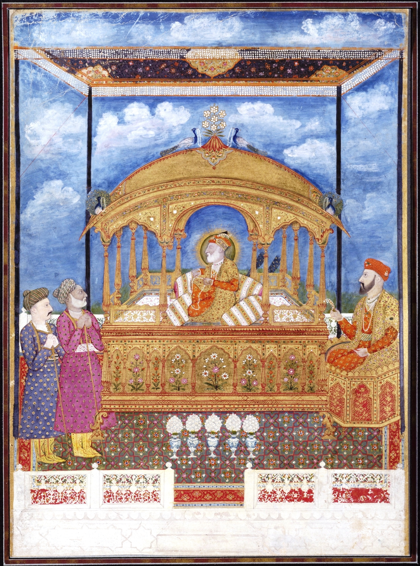 Shah Alam II (reigned 1759–1806) seated on a golden throne in Delhi. Opaque watercolor and gold on paper H. 12 13/16 x W. 9 5/16 in. (32.5 x 23.7 cm) Victoria and Albert Museum, IS.114-1986. This evocative portrayal of the blind emperor Shah Alam II (reigned 1759–1806), probably by the court painter Khairullah, highlights the continued preeminence of the Mughal emperor even as his political power was brokered through an alliance with Maratha chief Mahadji Sindhia, whose image also appears in this exhibition. In 1788, the Afghan Rohilla chief Ghulam Qadir had ransacked the palace treasury and blinded the emperor Shah Alam II in a fit of uncontrolled rage. Shah Alam’s son and successor, Muinuddin Muhammad (later Emperor Akbar II), is seated to the right on a throne platform, while on the left are two other courtiers from the emperor’s inner circle leaning on staffs. The gilded and bejeweled structures of the re-created Peacock Throne and Muinuddin’s seat, along with the five Chinese porcelain vases in the center, convey the painter’s attempt to re-create an air of luxury and opulence long associated with the image of the Mughal court.